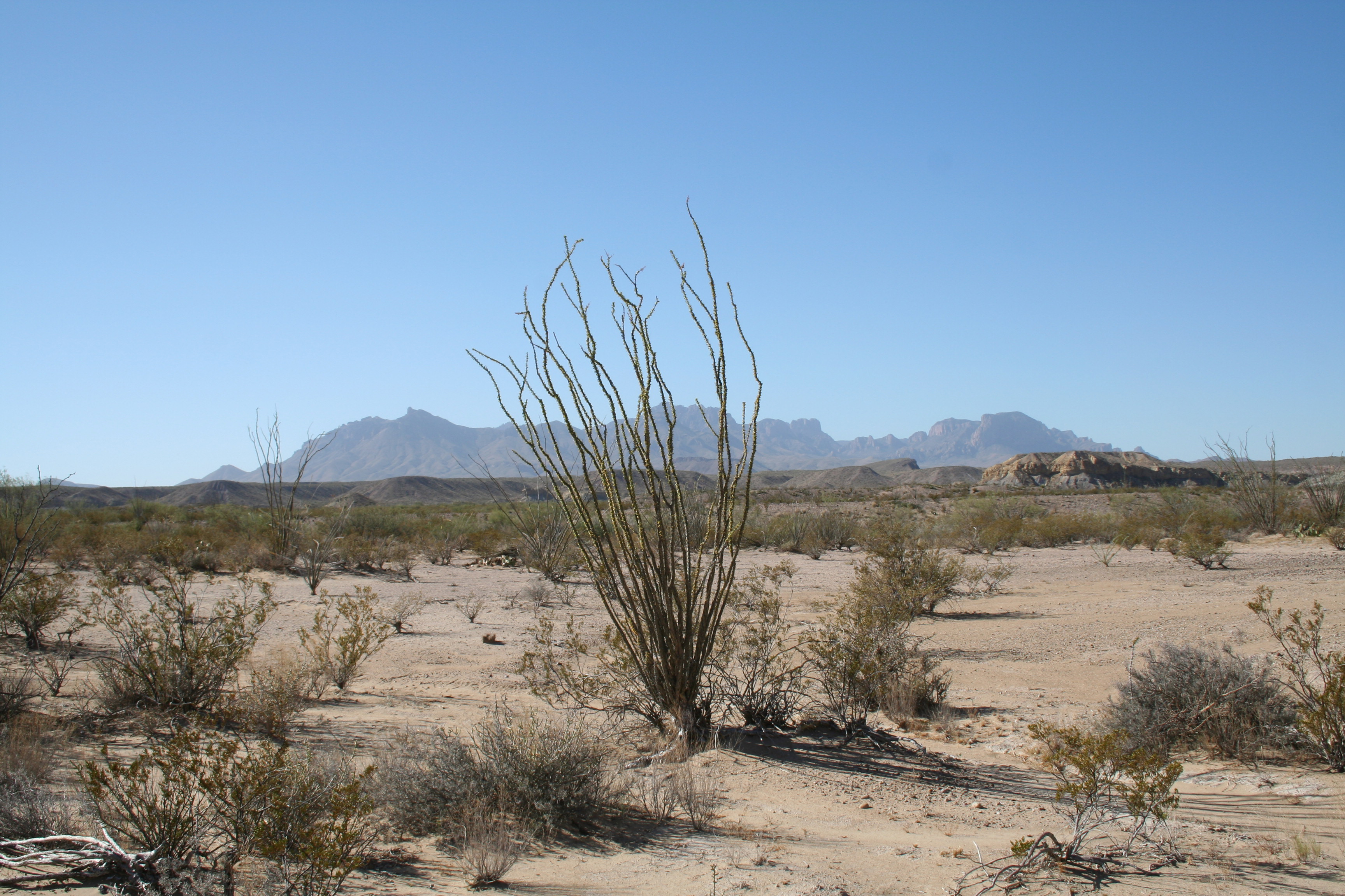 Ocotillo (Fouquieria splendens) and other Chihuahuan Desert plants with the Chisos Mountains in background, Big Bend, Texas